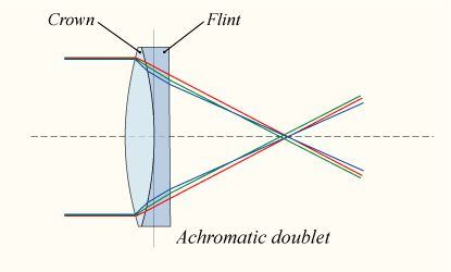 Achromatic doublet